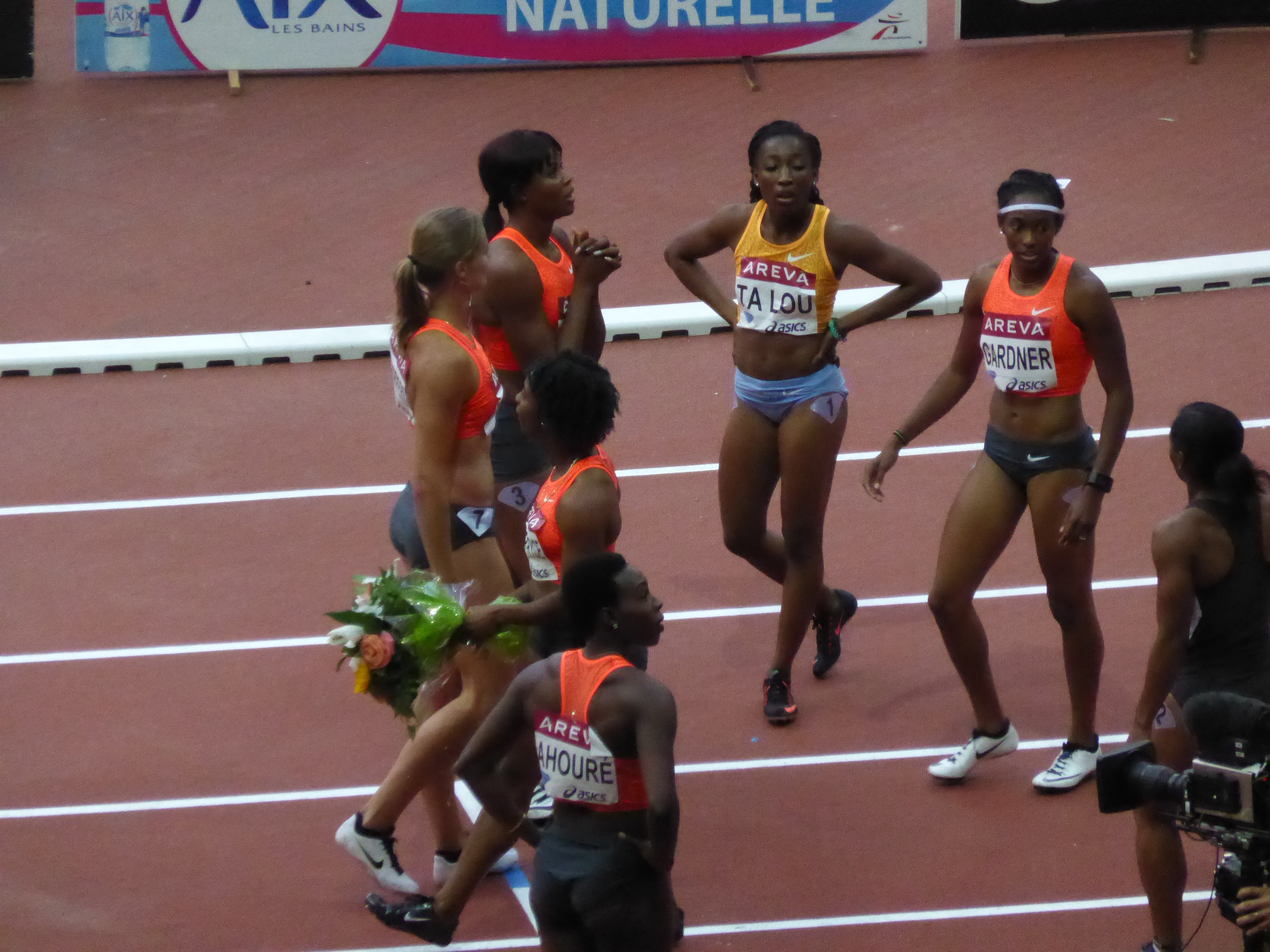 2015 Meeting Areva, Stade de France, Paris.